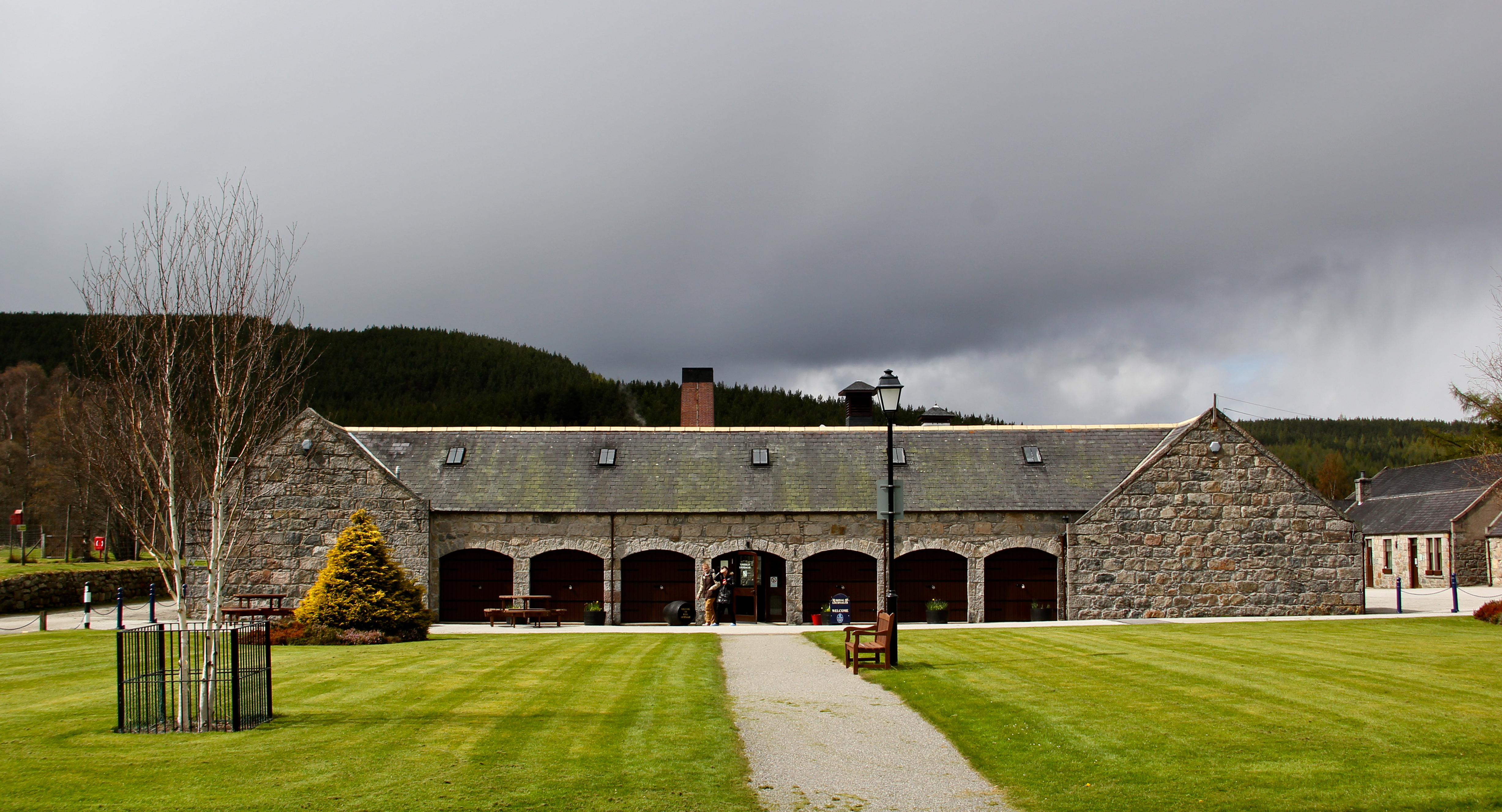 Main building of the Royal Lochnagar Distillery in Ballater, Aberdeenshire, Scotland, United Kingdom.